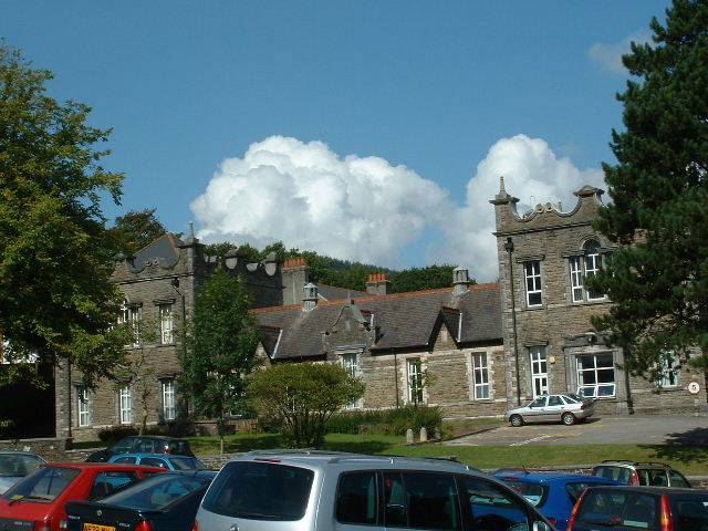 Maesteg Community Hospital. Near the centre of the square